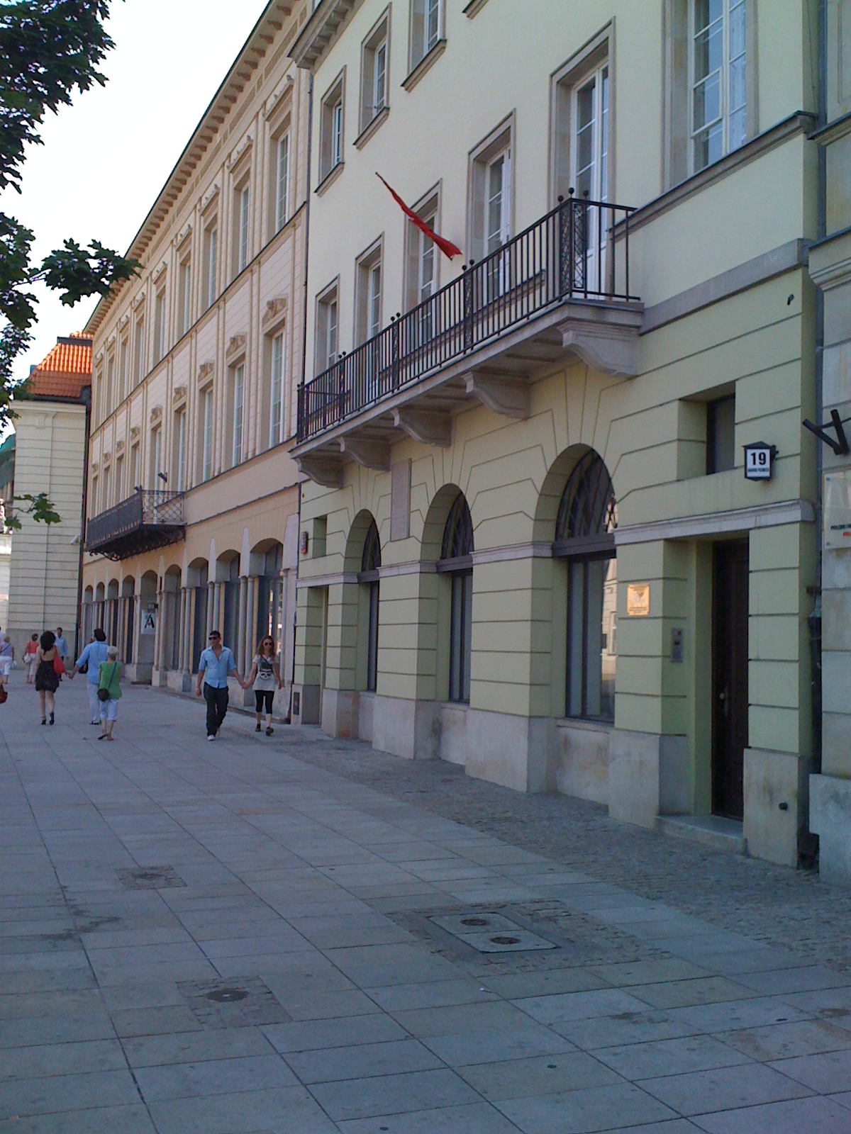 Krakowskie Przedmieście 19, Warsaw, Poland: site of 1837-42 home of Wojciech Żywny, Fryderyk Chopin's first professional piano teacher.